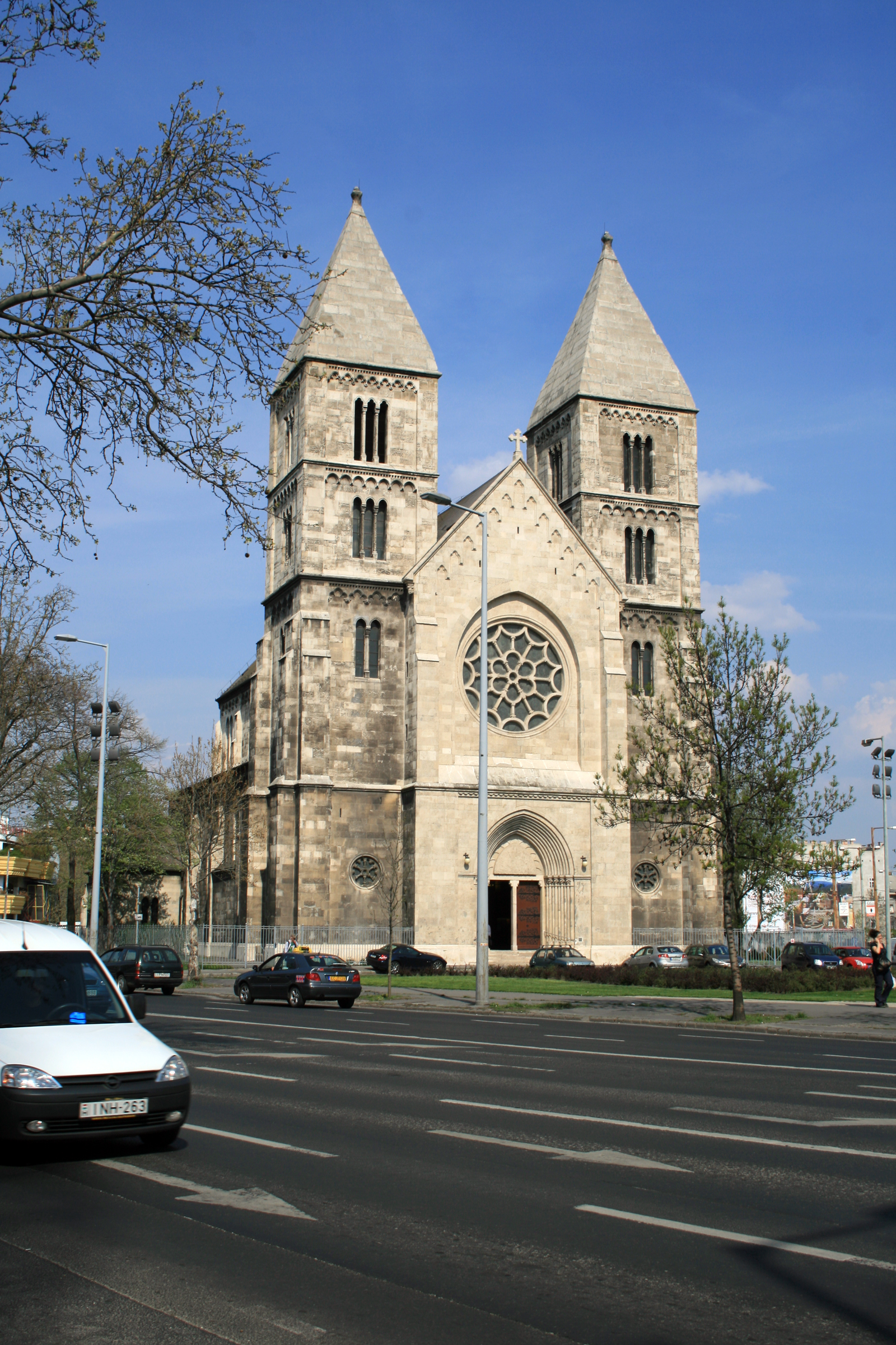 The Parish Church of St. Margaret of Hungary, Budapest, Hungary